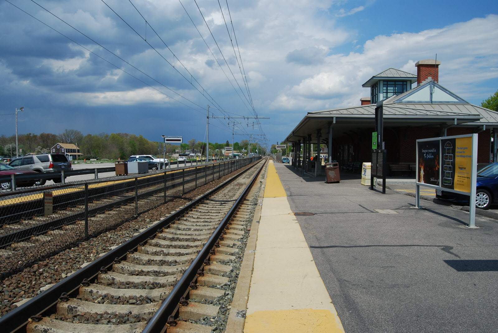 MBTA Commuter Rail Station, Mansfield, Massachusetts (viewed from northbound side). Amtrak trains also pass through here, but do not stop.